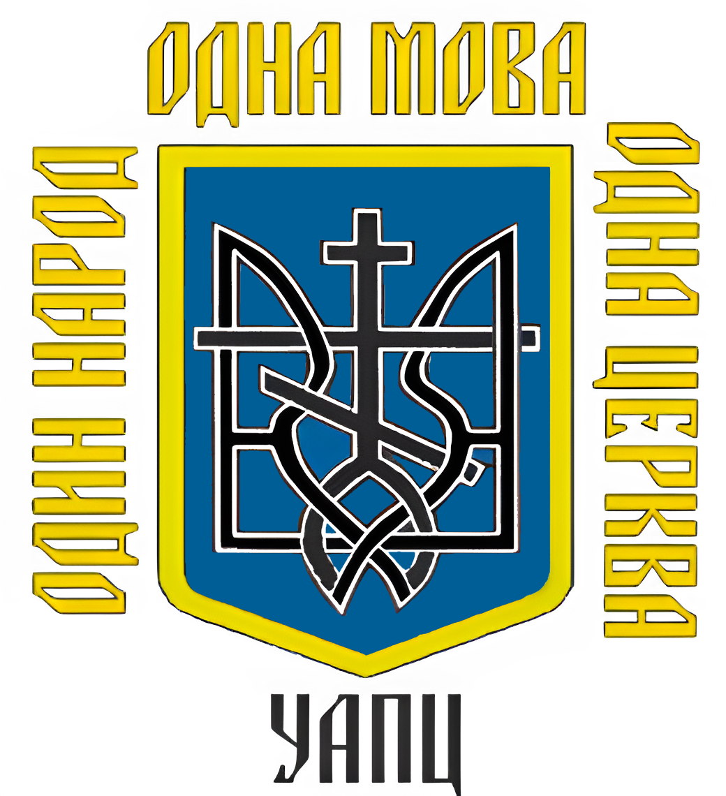 Ukrainian Autocephalous Orthodox Church